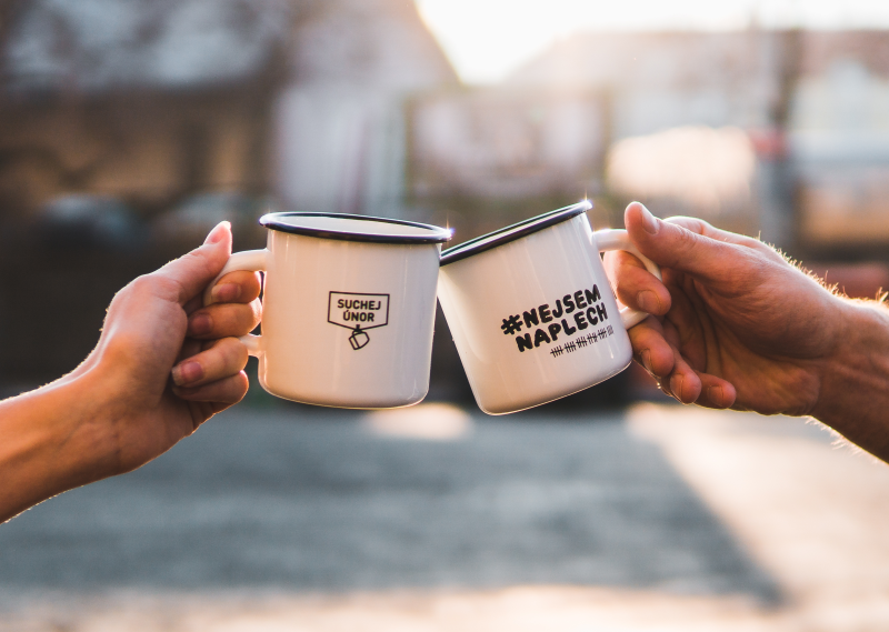 "Suchej únor" (Dry february) is a challenge that provides oportunity to test the relationship between the people and alcohol. Picture was made for campaign in 2020 and had been taken in Prague (Czech republic)